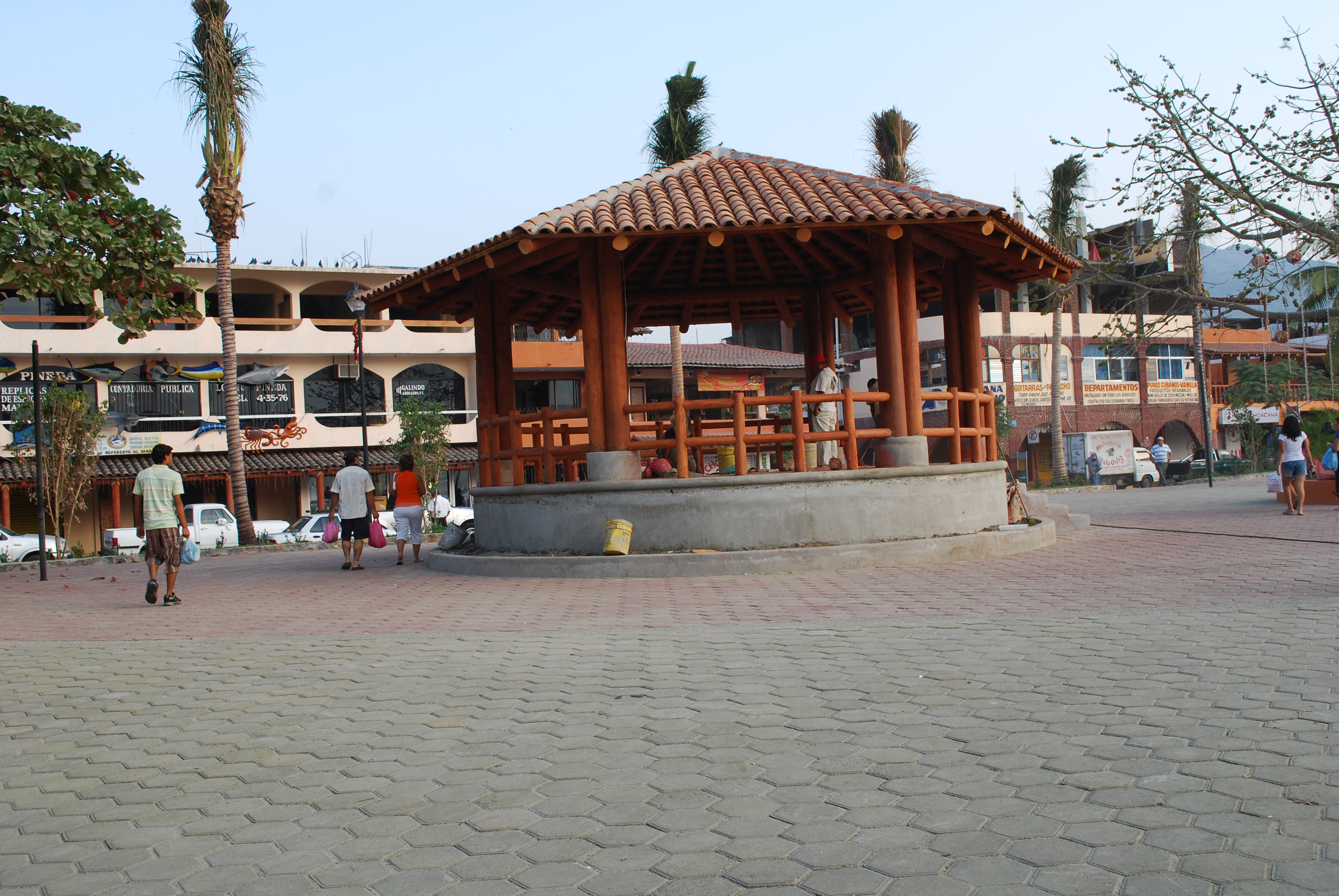 Kisok in the main plaza of Zihuatanejo, Mexico